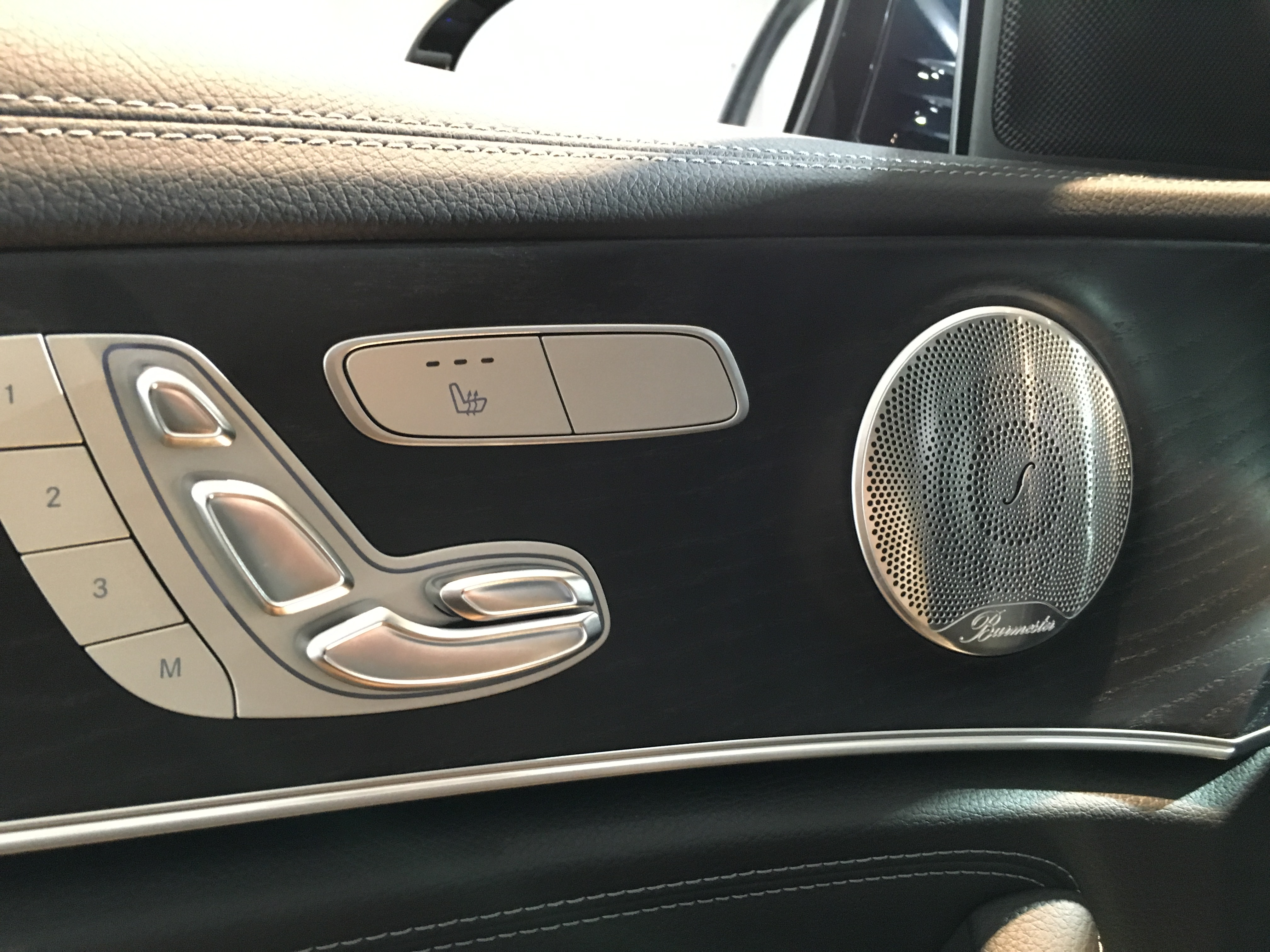 Mercedes-Benz W213 sedan doors